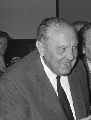 Santiago Bernabeu, former president of Real Madrid F.C.